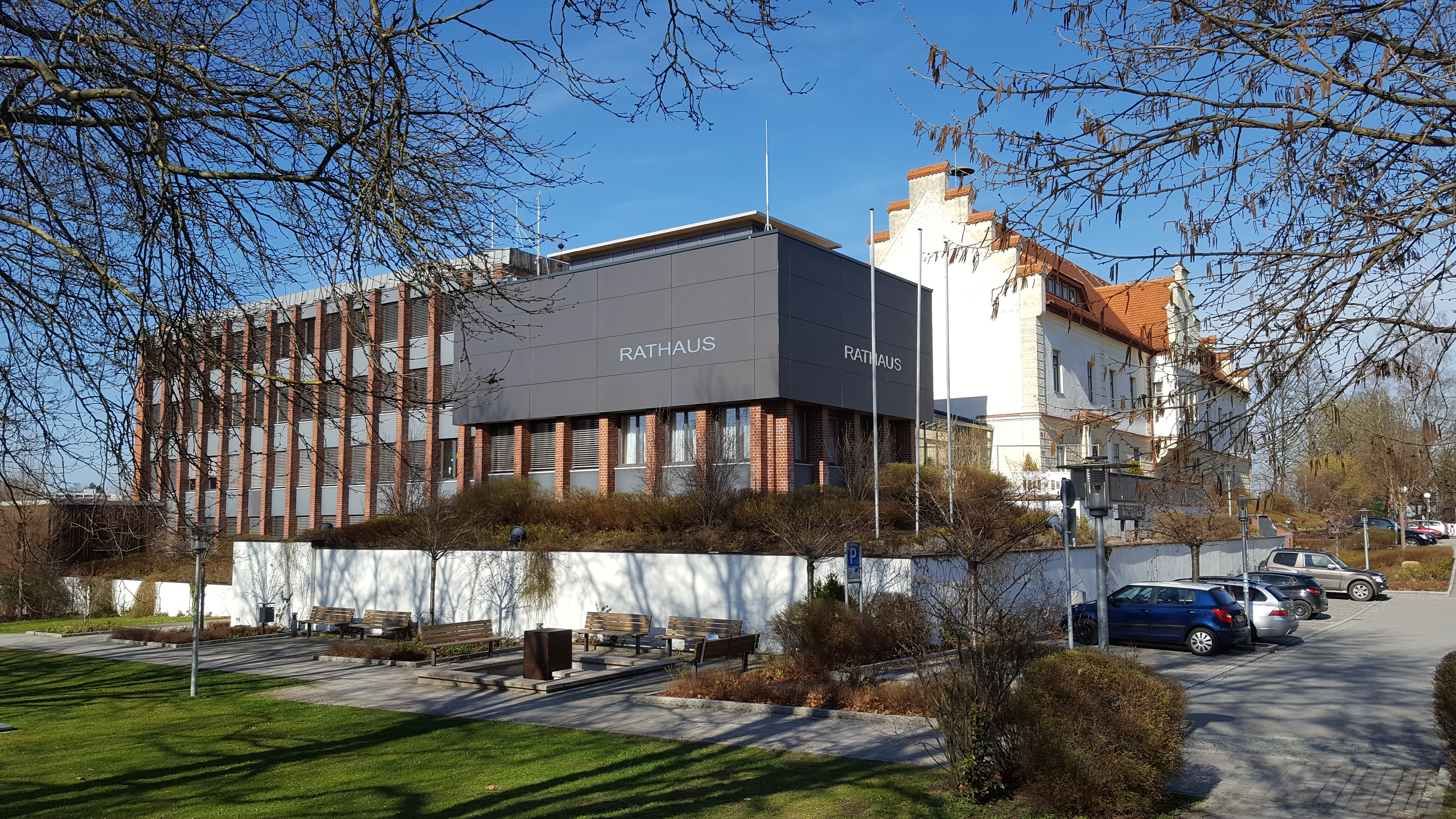 Town hall of Markt Schwaben, county Ebersberg, Bavaria, Germany